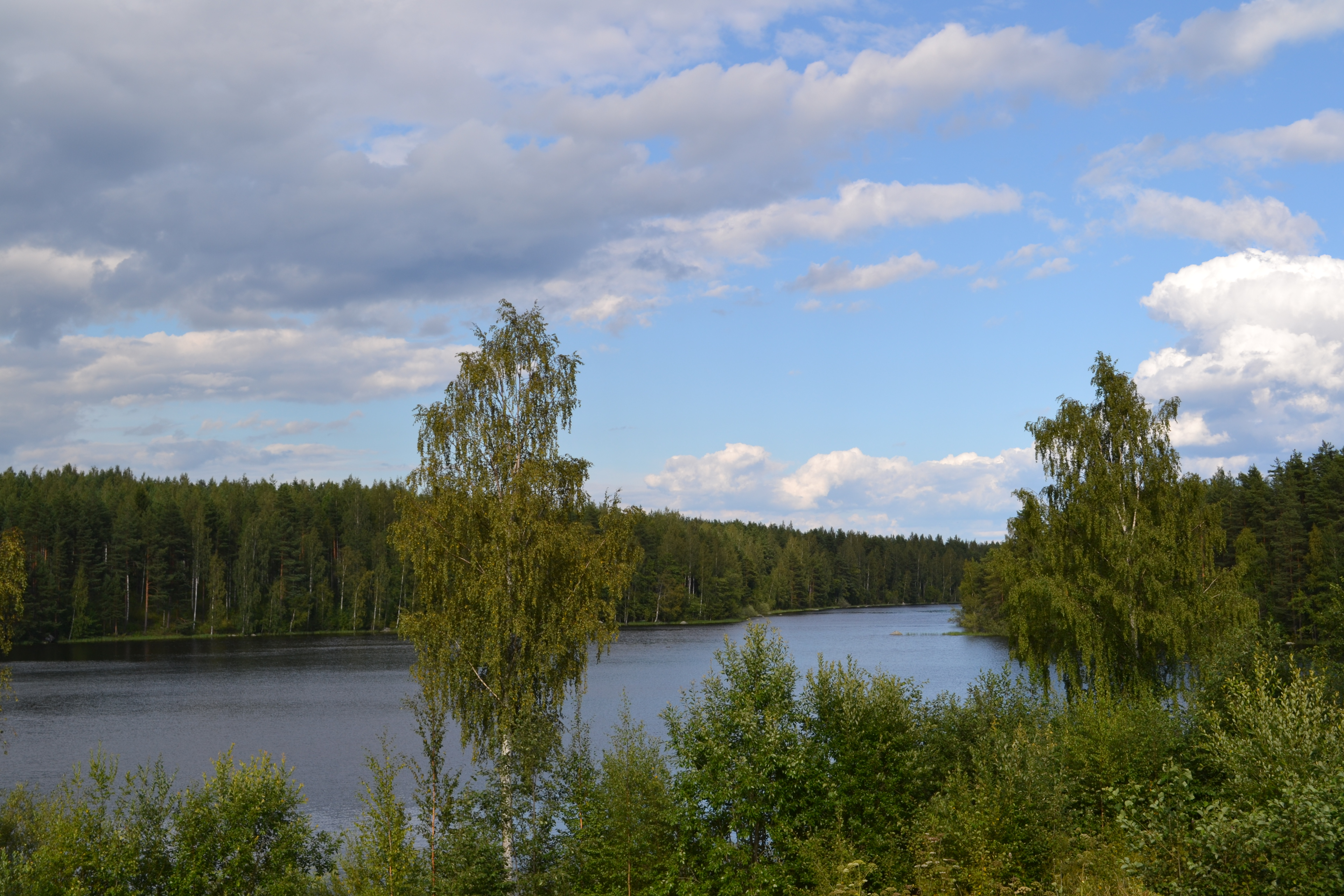 Bay Janakanlahti in Jyväskylä